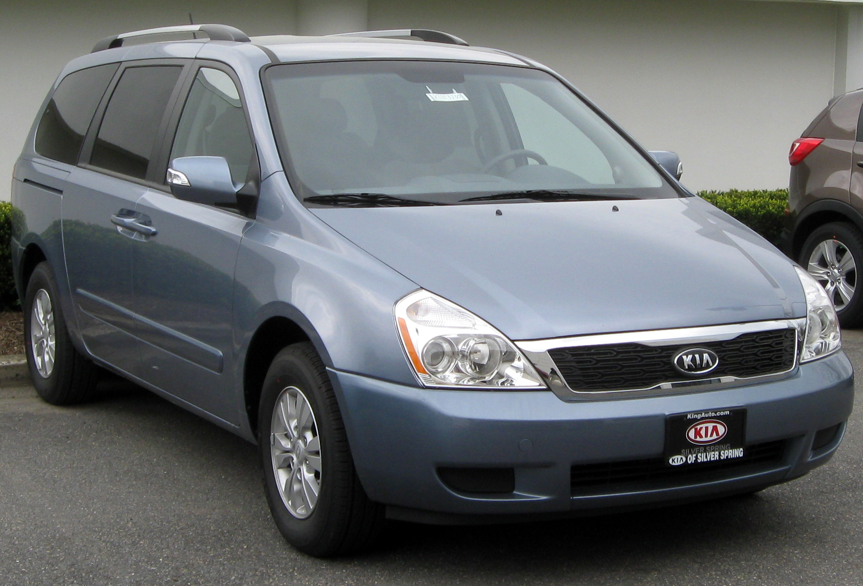 2011 Kia Sedona photographed in Silver Spring, Maryland, USA.